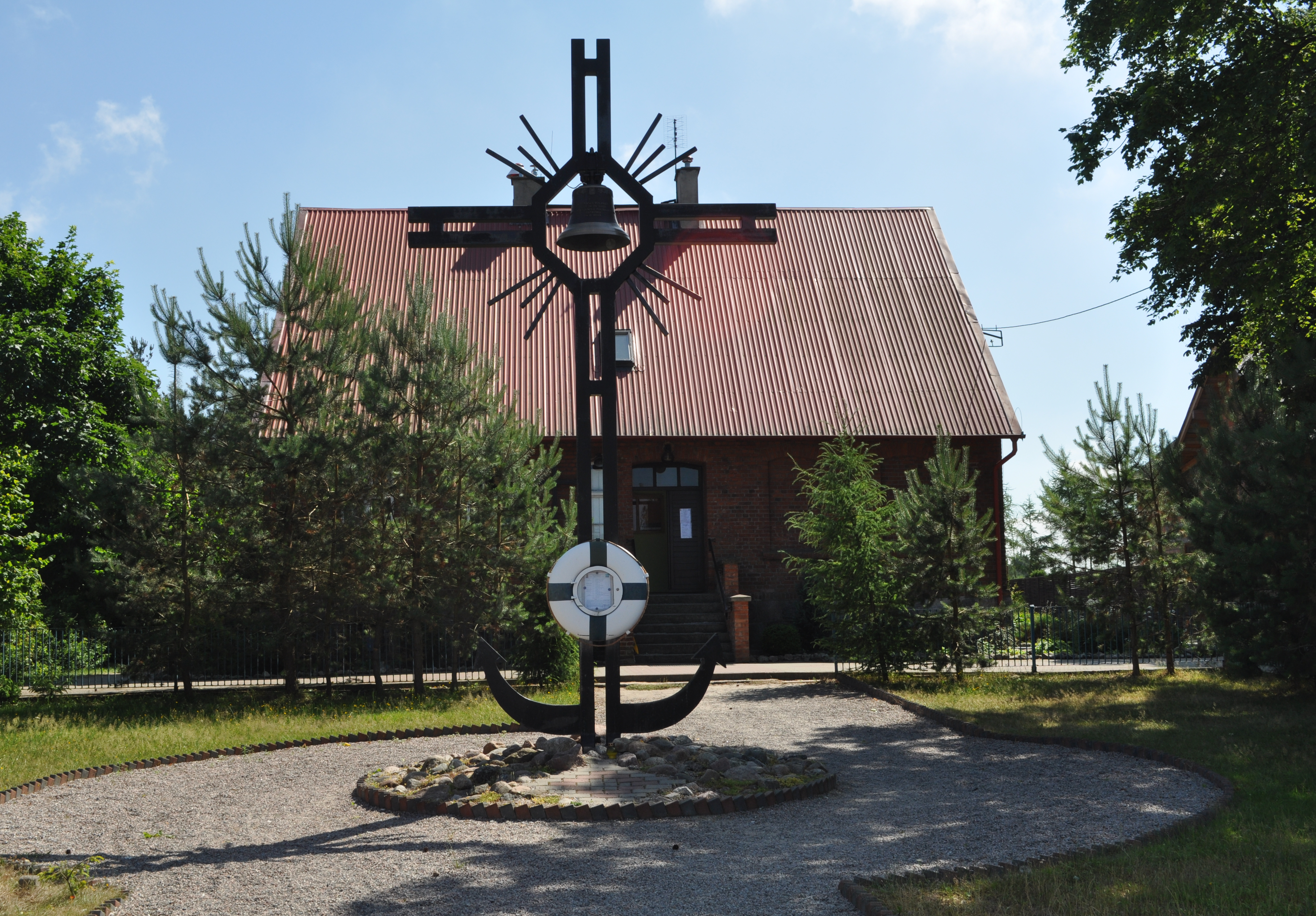 Church in Ostrowo